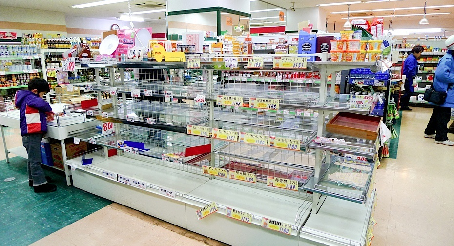 While we didn't really have any trouble getting hold of food that we wanted to eat, supermarkets and pharmacies had empty shelves like this. Readily edible foods like bread and milk were hard to get hold of depending on the time of day one went shopping. The Supplies Shortage Tokyo post explains some of the reasons why shelves were like this.